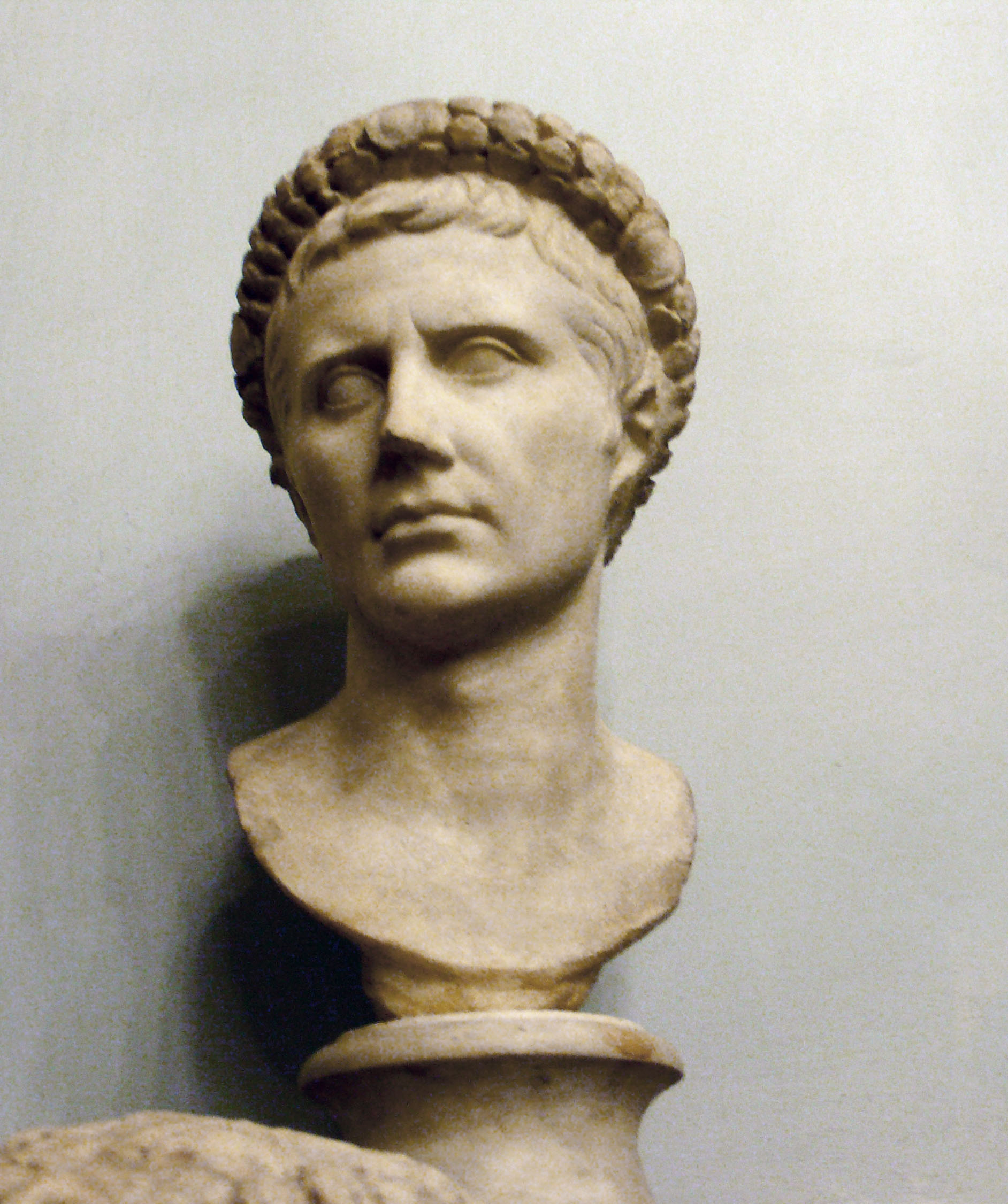 Brust of Gaius Julius Caesar Augustus Octavius, first Roman Emperor.27 BC - 14 AD, Marble. cm 42. From Rome, Via Merulana. Capitoline Museum, Rome.